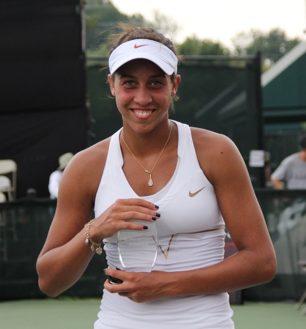 She is holding a winner's trophy after she won the 2011 US Open Wildcard Playoff.